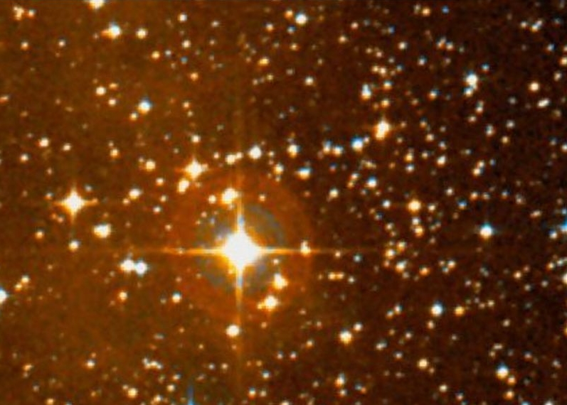 A zoomed-in picture of VY Canis Majoris, taken and processed from Rutherford Observatory telescope in 07 September 2014.